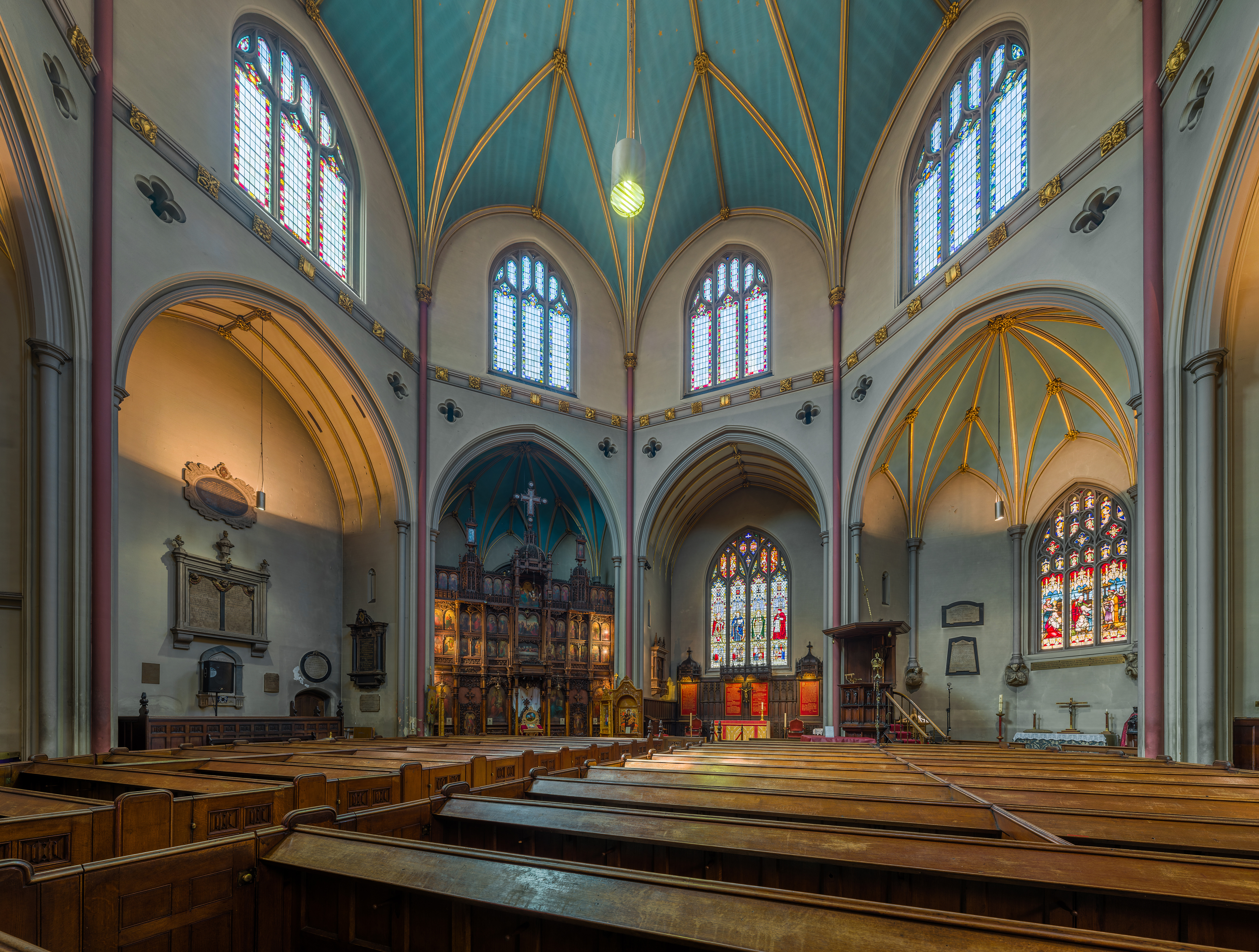 The interior of St Dunstan-in-the-West church on Fleet Street, London, England.